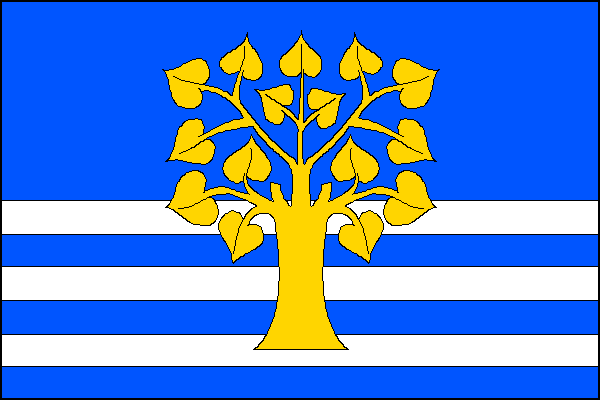 Municipal flag of Poteč village, Zlín District, Czech Republic.